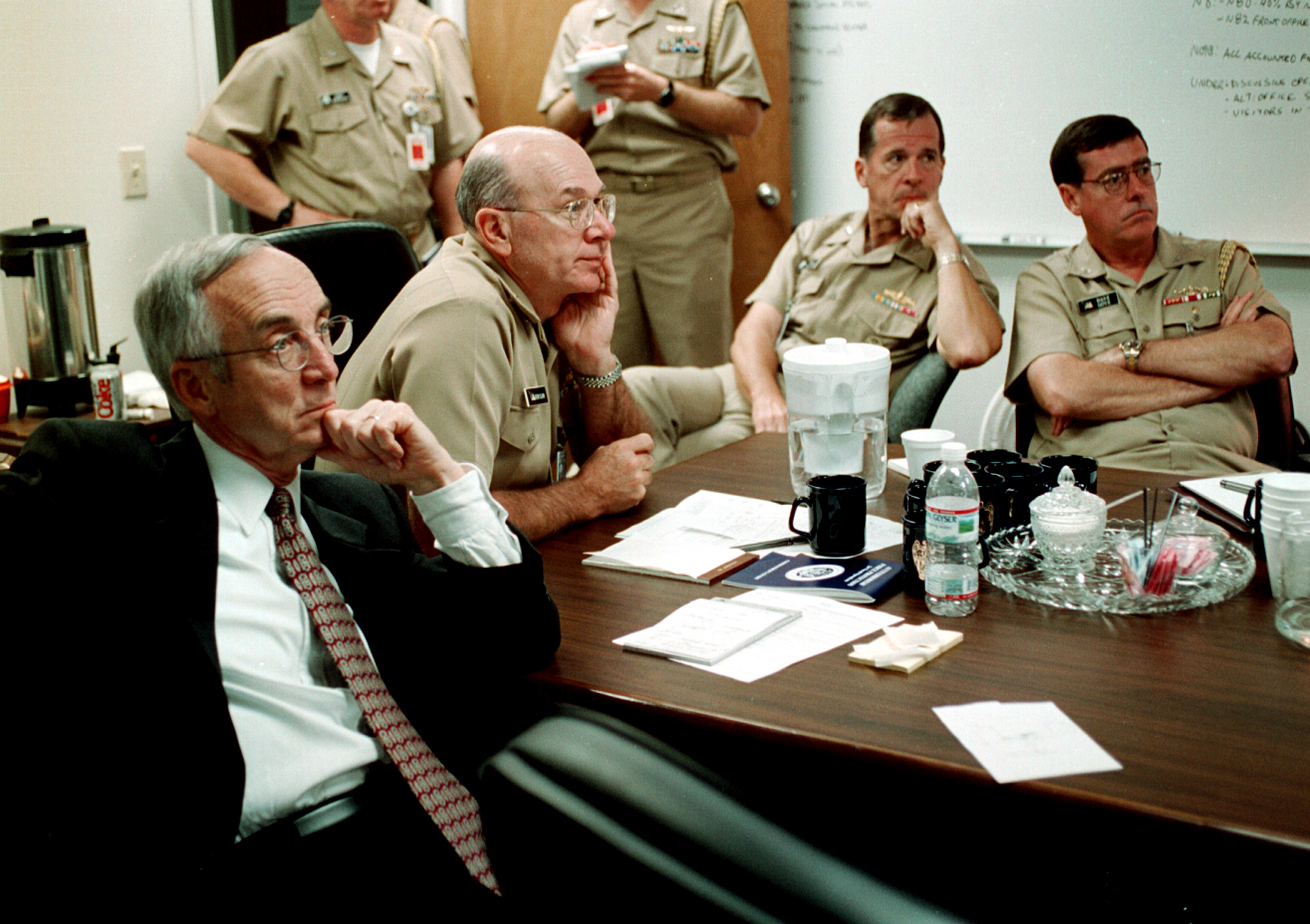 Sep. 11, 2001- Secretary of the Navy The Honorable Gordon R. England, left, and Chief of Naval Operations, Admiral Vern Clark, center, watch CNN for information on New York's twin towers in between conference calls with the Commandant of the Marine Corps while assessing casualties and damage at the Pentagon. Secretary England was in Texas at the time of the attack, and immediately returned to Washington, where he was taken to an undisclosed location and received the first briefings with Admiral Clark. To the left of the CNO is Vice Admiral Mike Mullen, Deputy Chief of Naval Operations for Resources, Requirements and Assessments.